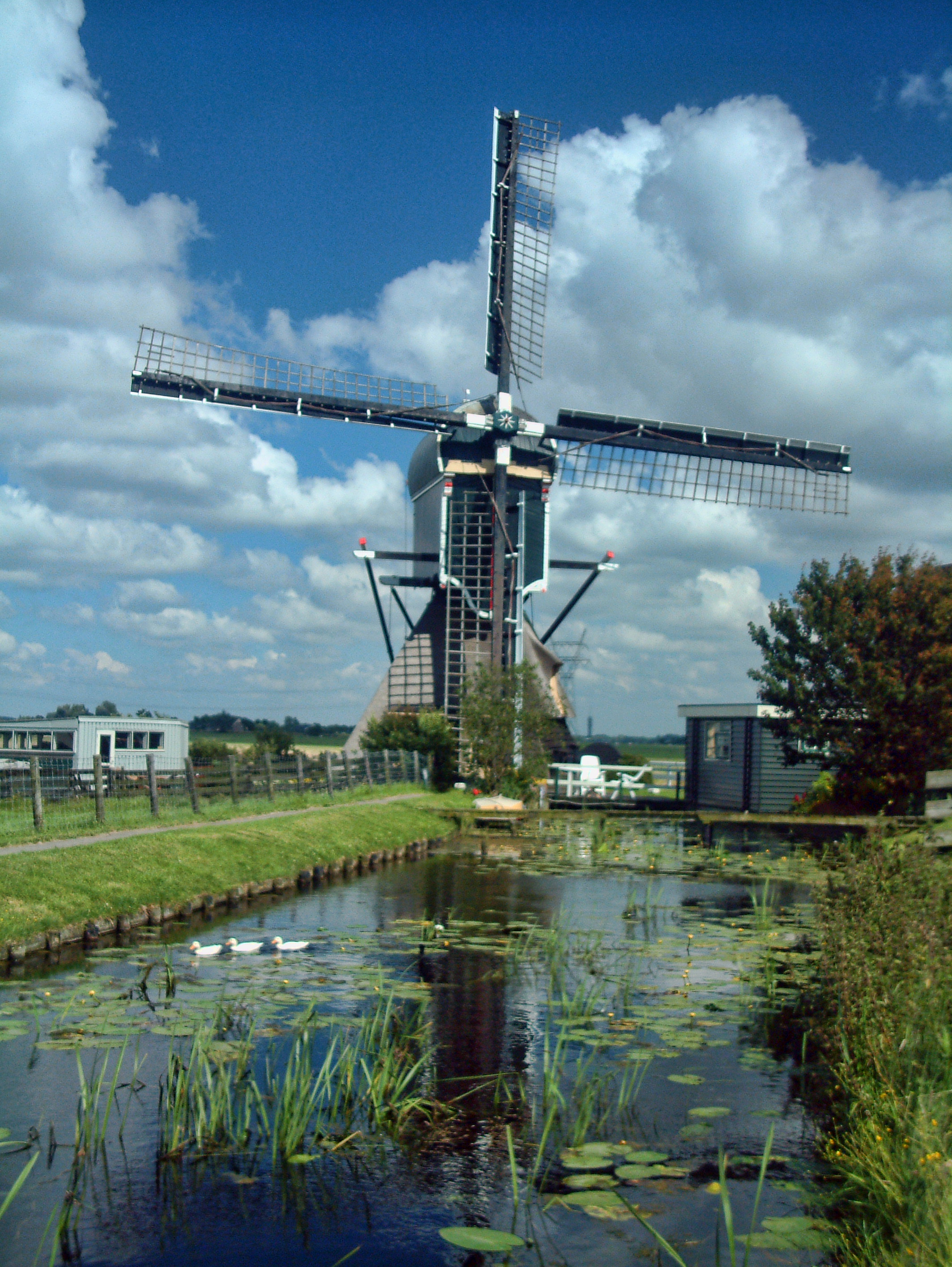 The Doeshofmolen is directly across the bike trail from this beautiful Wip Mill.